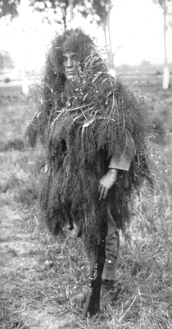 Sniper camouflage techniques.